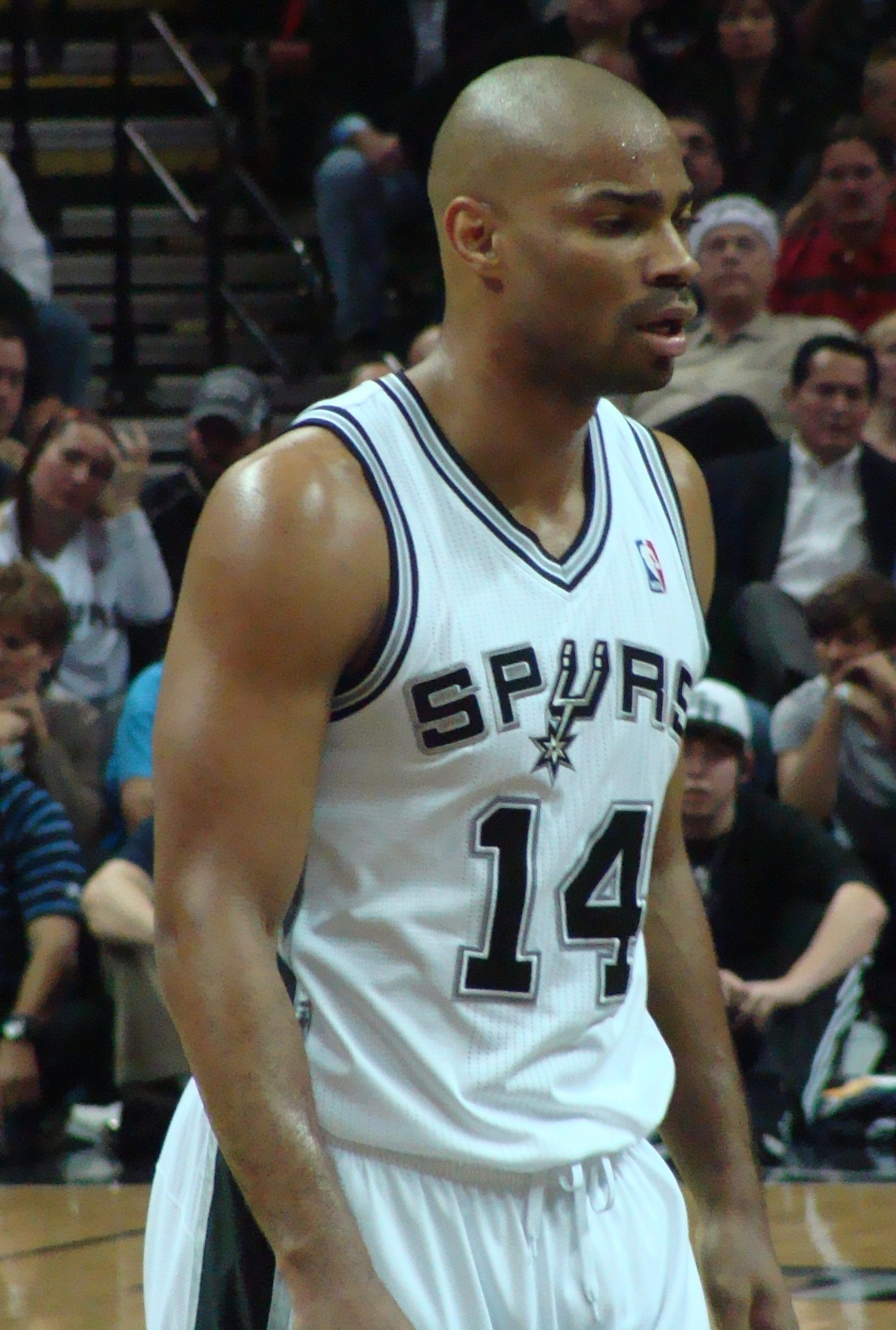 Gary Neal of the San Antonio Spurs, during the Spurs-Nuggets match on 12-22-2010 in San Antonio, TX.